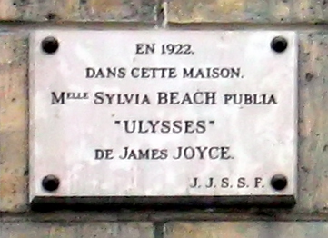 Memorial plaque at 12, Rue de l'Odeon Paris, France (where Sylvia Beach's bookstore „Shakespeare & Company“ was located)